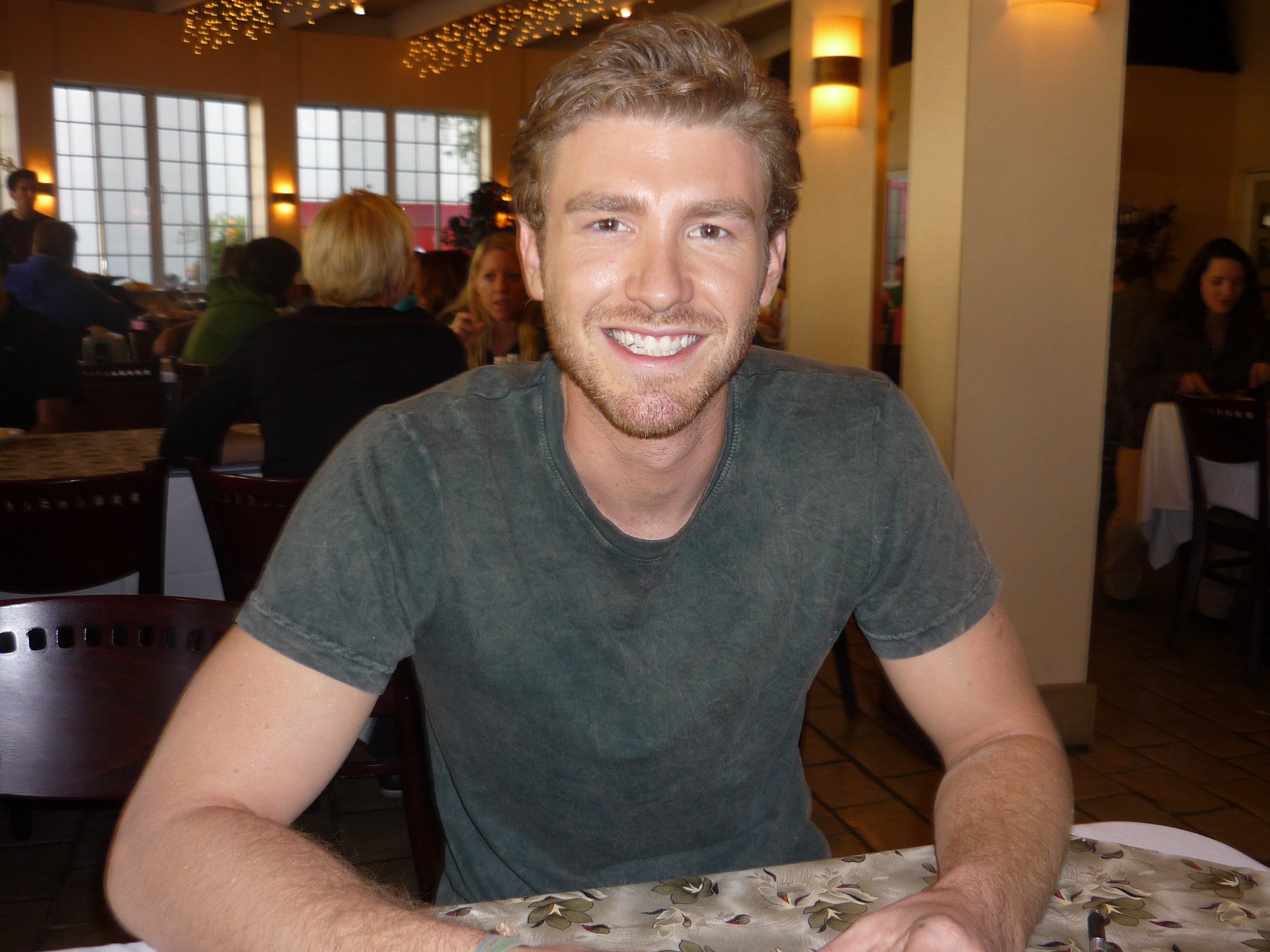 Jon Foster on the set of Accidentally on Purpose.